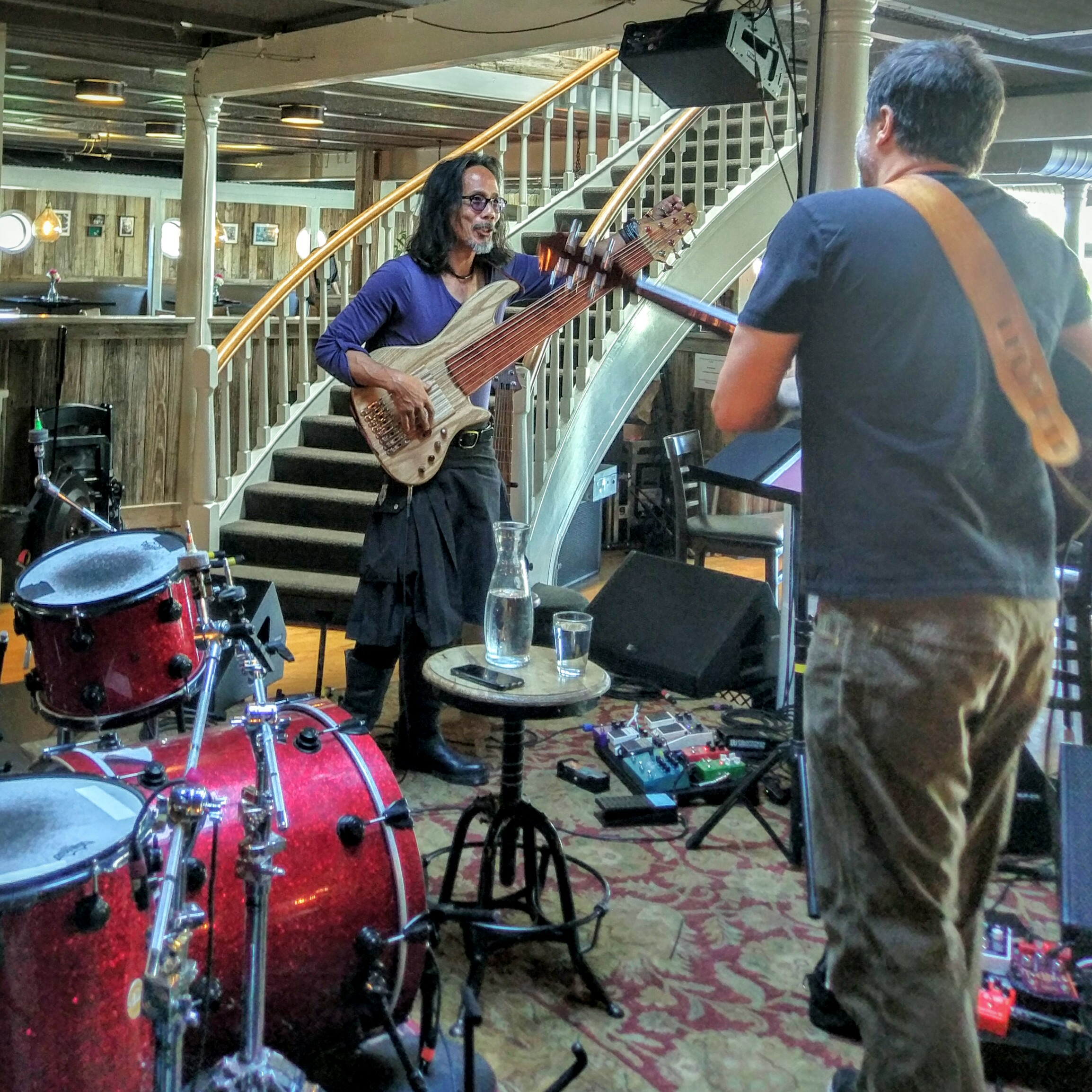 Musicians warming up at Terrapin Crossroads. Photo by Jim Heaphy.